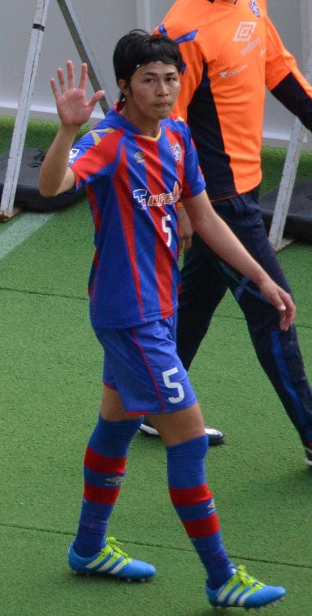 Yuichi Maruyama after the Tamagawa Clasico - the match between FC Tokyo and Kawasaki Frontale - played at Ajinomoto Stadium 16th April 2016.